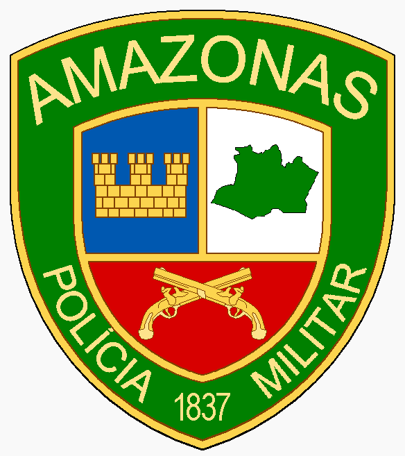 Coat of arms of Military Police - PMAM - Brazil.